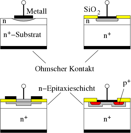 variations of a Schottky diode